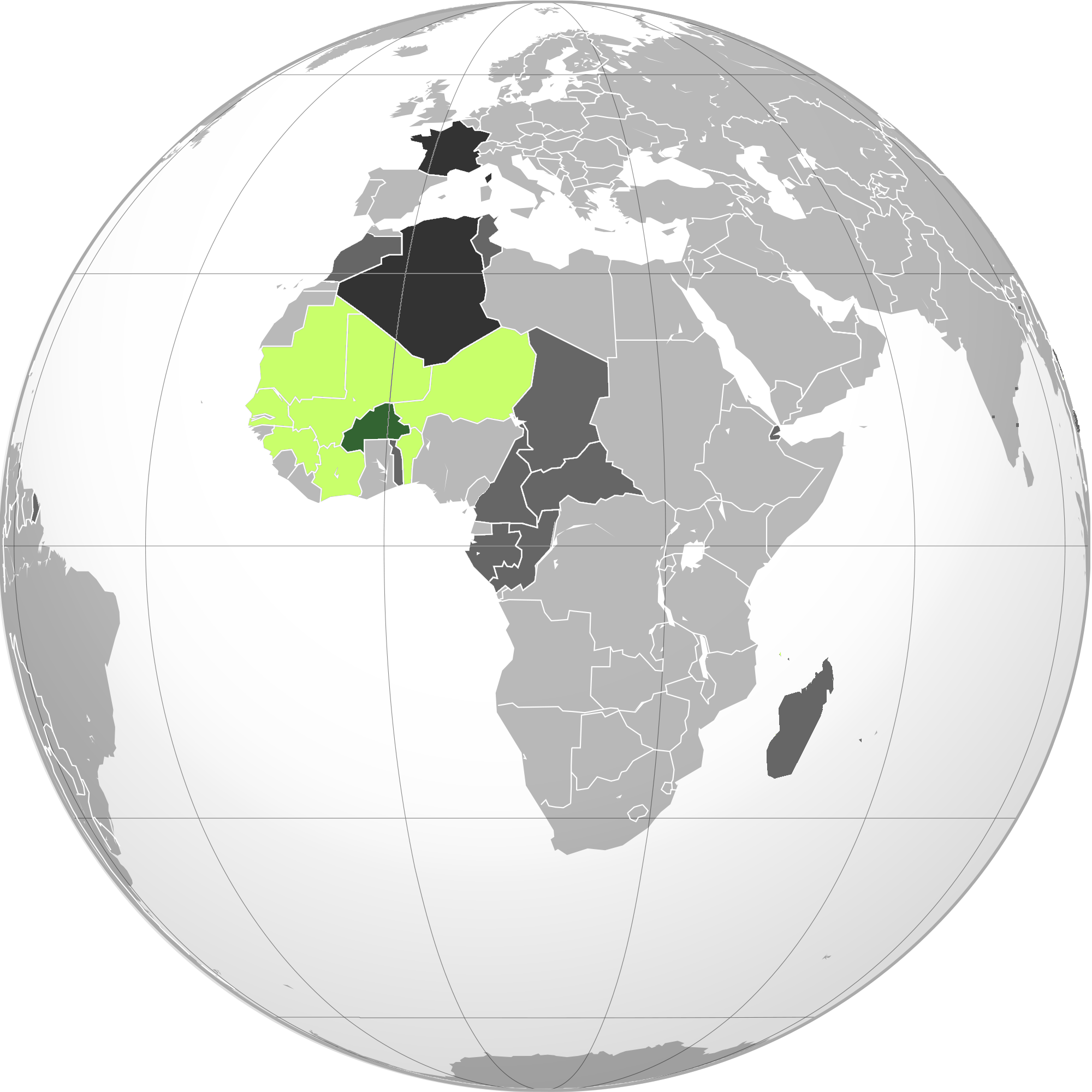 Green: French Upper VoltaLime: French West AfricaDark gray: Other French possessionsDarkest gray: French Republic